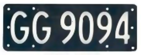 New_zealand_license_plate_gg